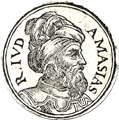 Amasias